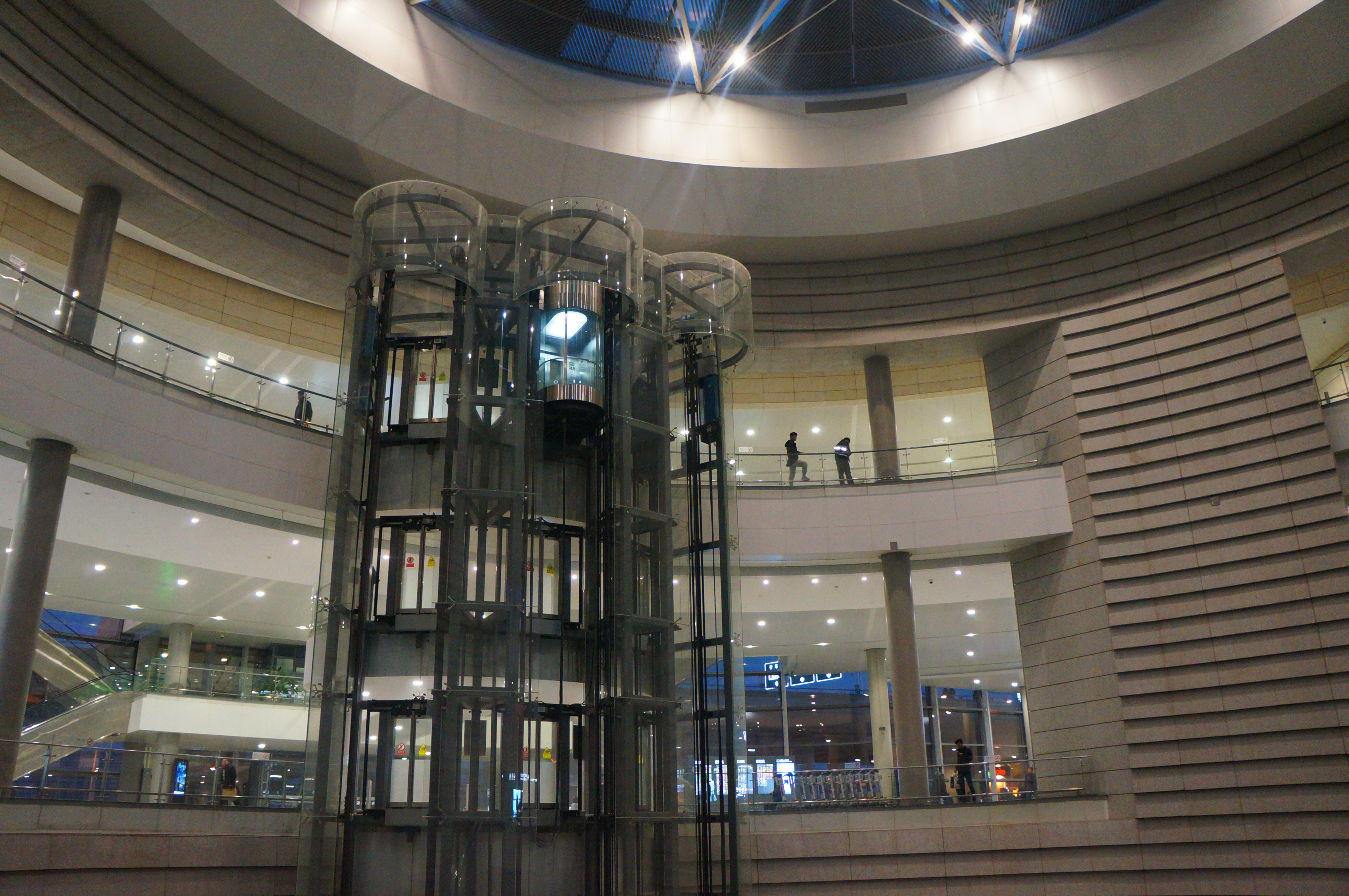 201712 Transit Lobby at NKG T2, rush for the train departs at 1820 at NJN.